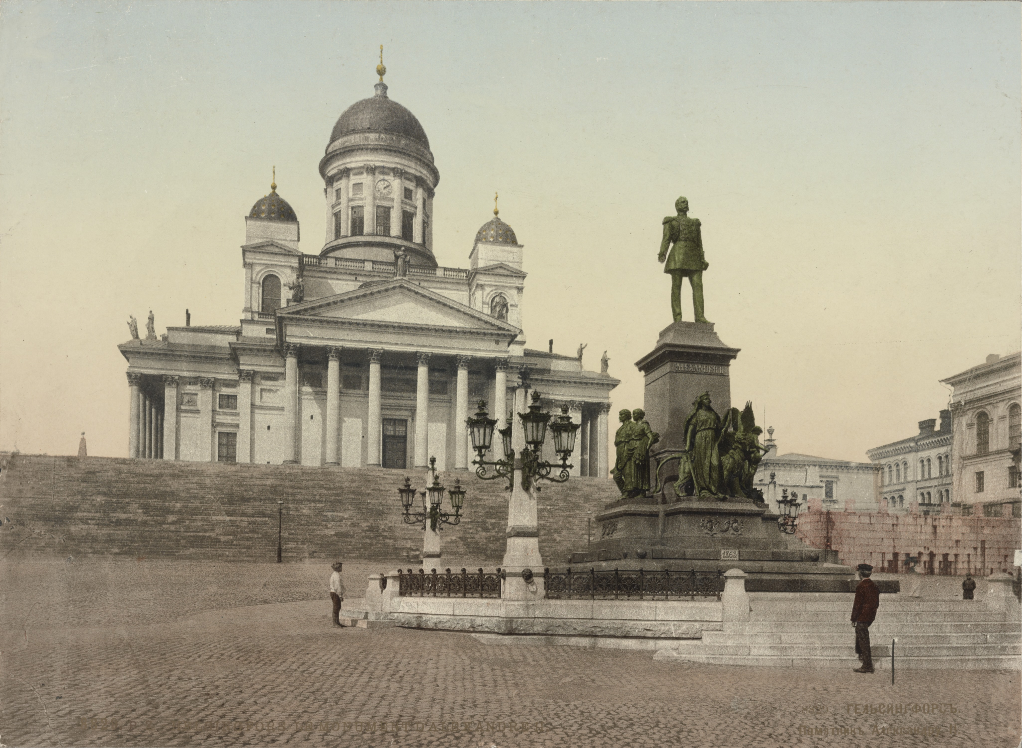 Helsinki Cathedral and statue of Alexander II of Russia ca 1890-1900